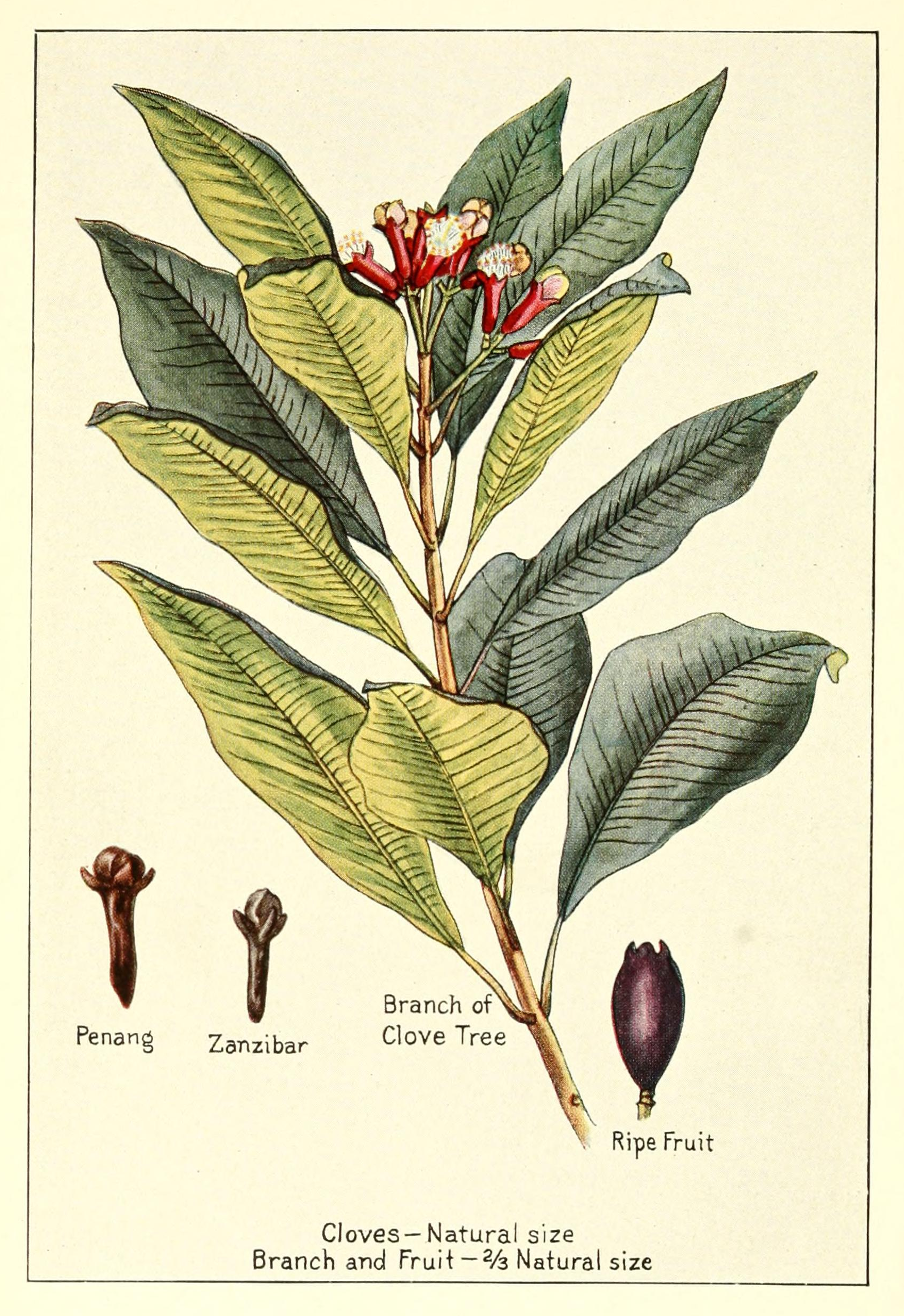 Describes cloves of Zanzibar and Penang with flowers.